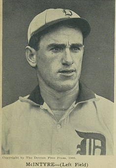 Portrait of Matty McIntyre published by Detroit Free Press 1908